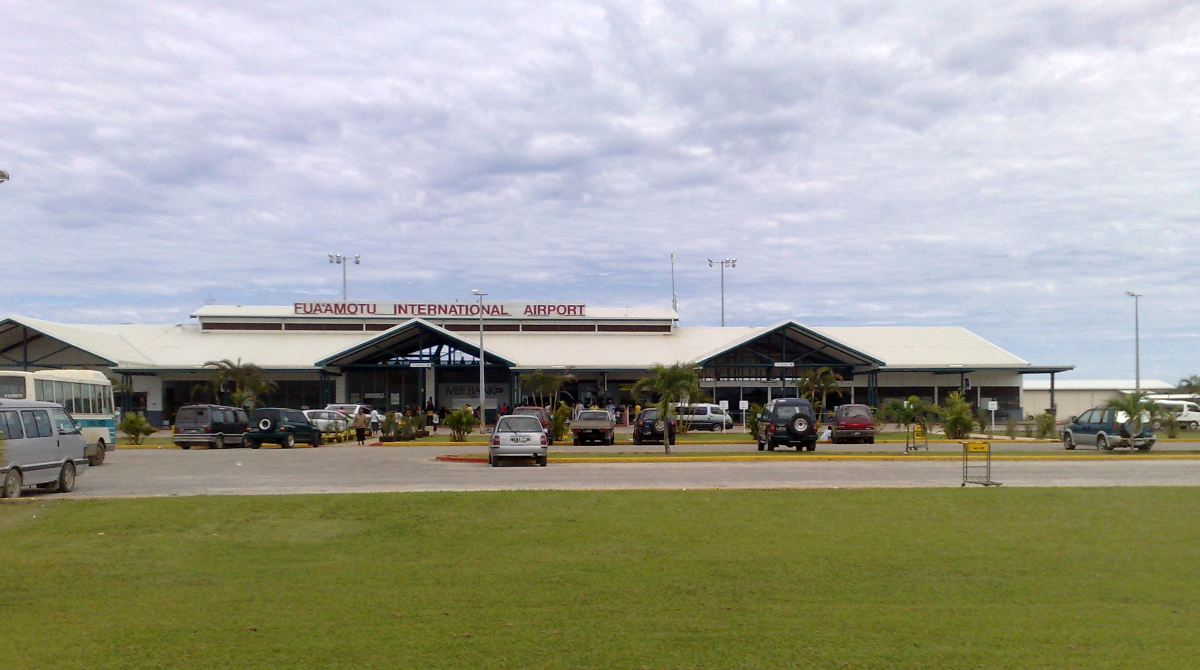 The passenger terminal of Fuaʻamotu International Airport (TBU/NFTF), seen from the front.